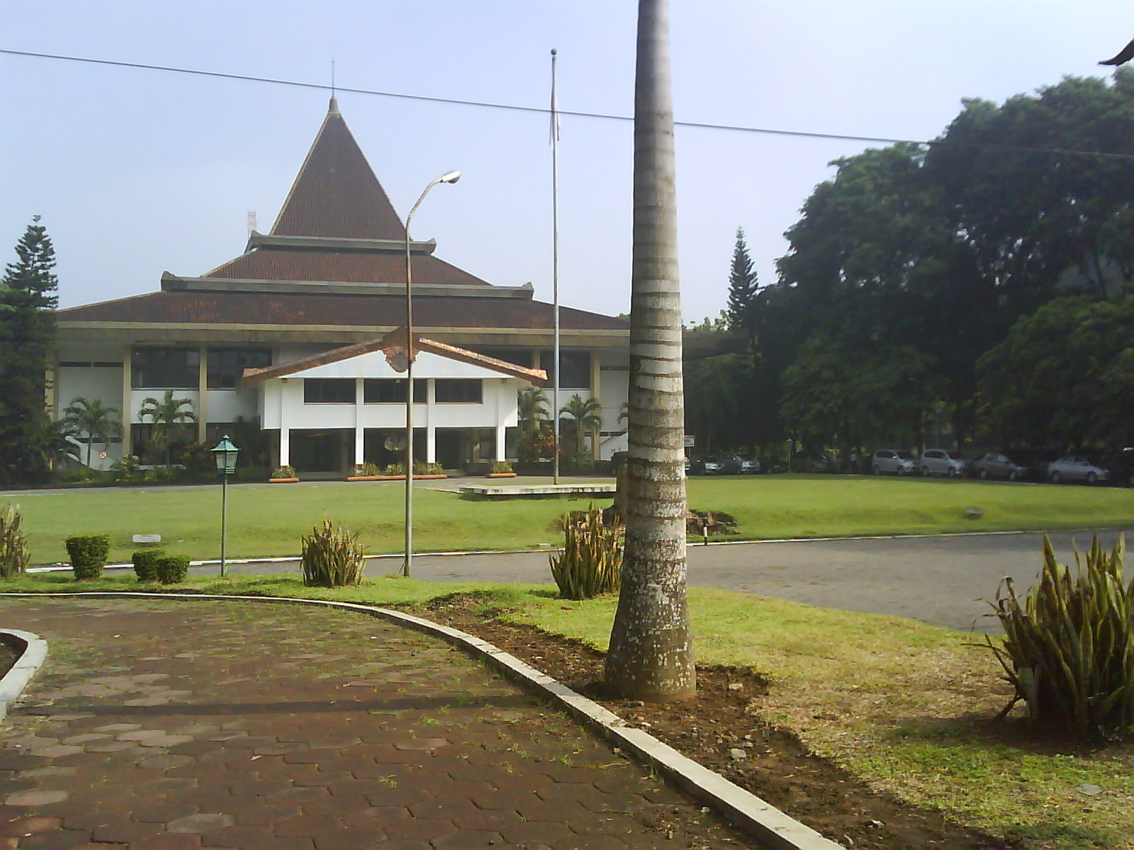 UNS Rectorate